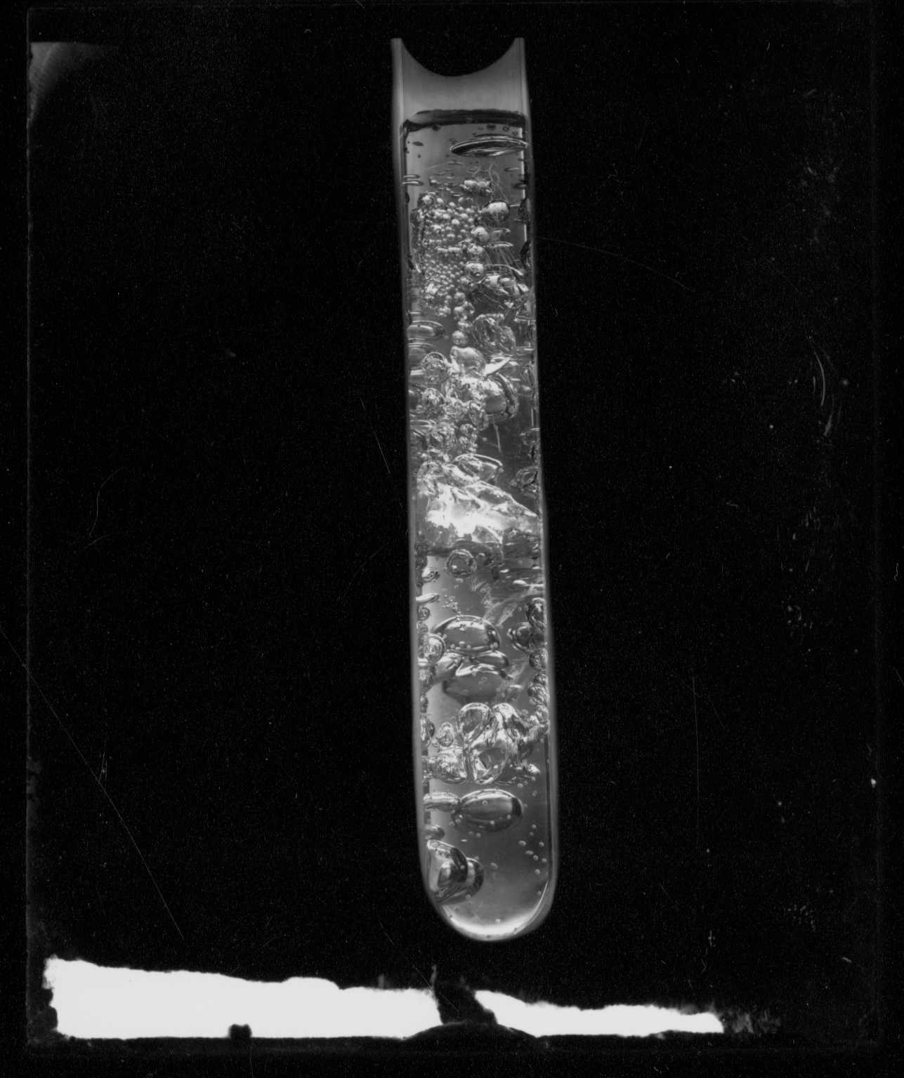 Gelatin culture, gas bacillus. [Gas gangrene. Laboratories.]